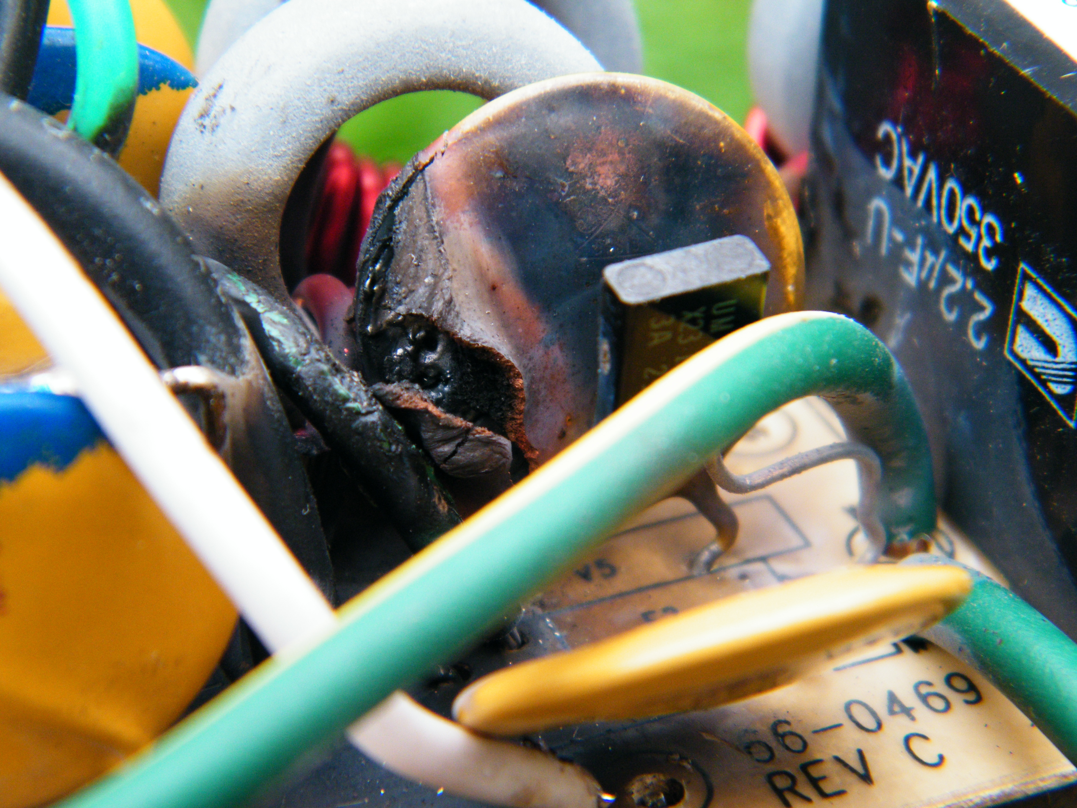 This photograph by mwdonnellan shows a 130 volt varistor that has undergone catastophic failure as a result of a lightning strike. This varistor was a component of a consumer-grade surge protector. Note the evidence of heat and smoke. The component immediately in front of the varistor was a 3 amp fast-blow fuse, that blew during the same event. Photograph at original scale.